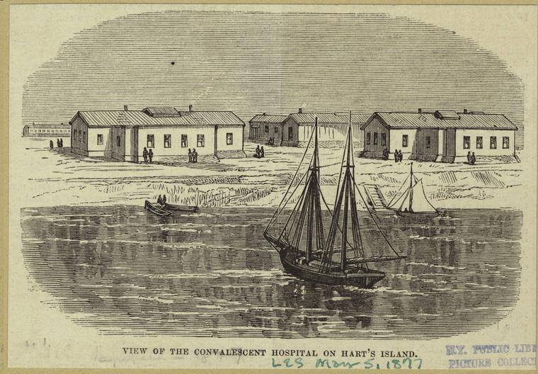 View of the Convalescent Hospital on Hart's Island 1 print : b&w ; 9 x 12 cm. (3 1/4 x 4 3/4 in.)